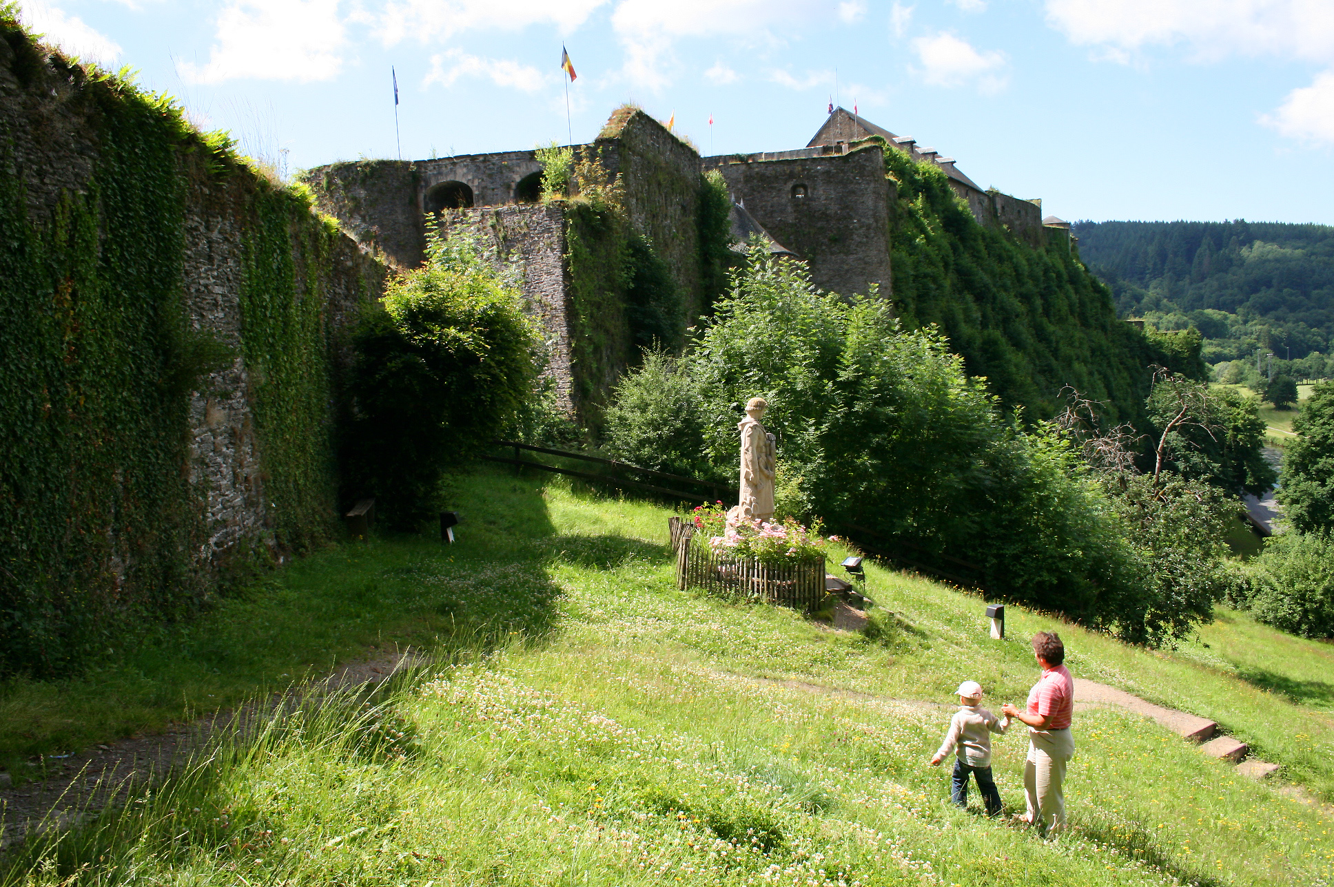 Bouillon (Belgium): northern part of the fortified castle (10th–16th centuries) and statue of Godfrey of Bouillon.